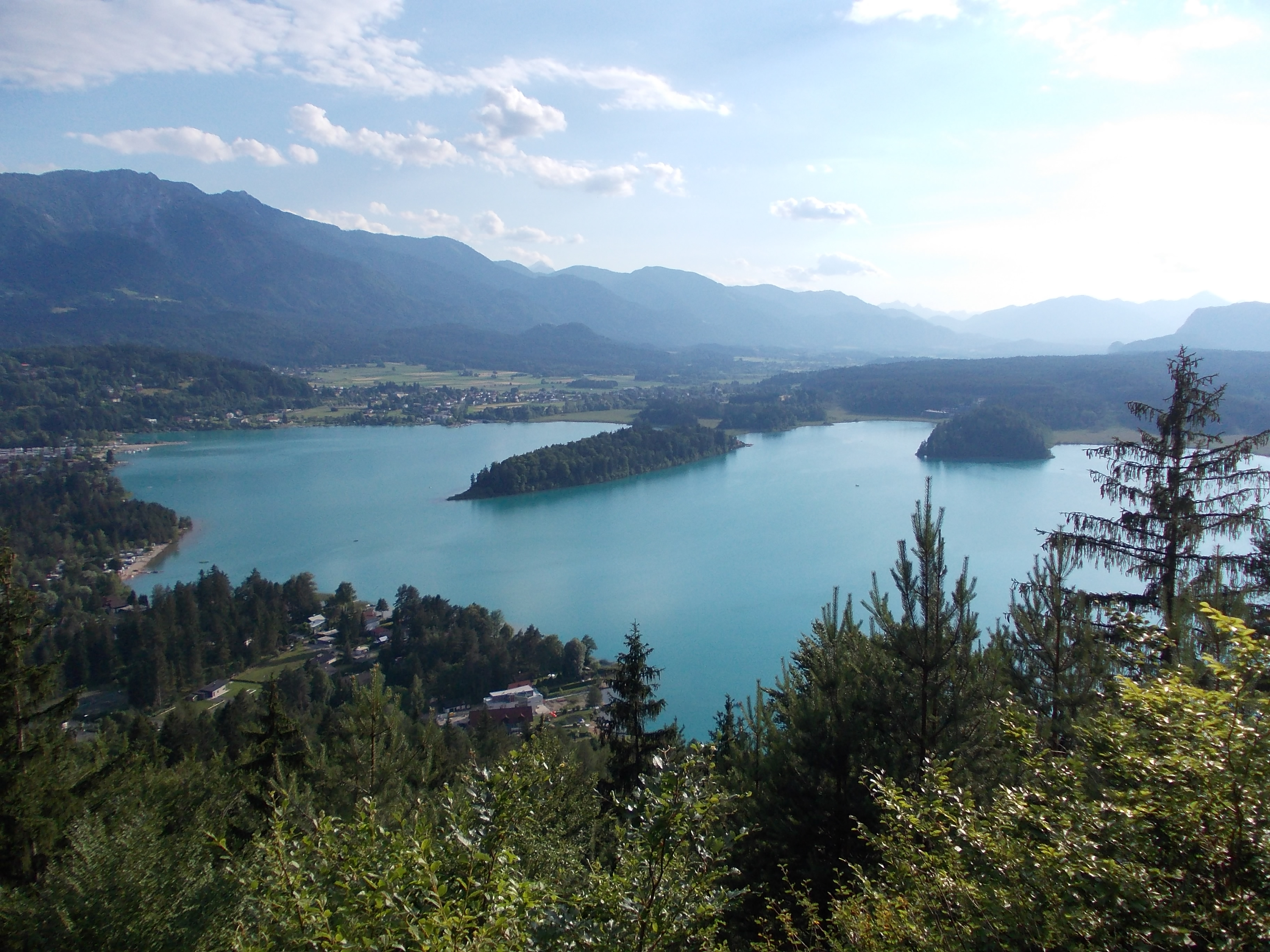 Faaker See